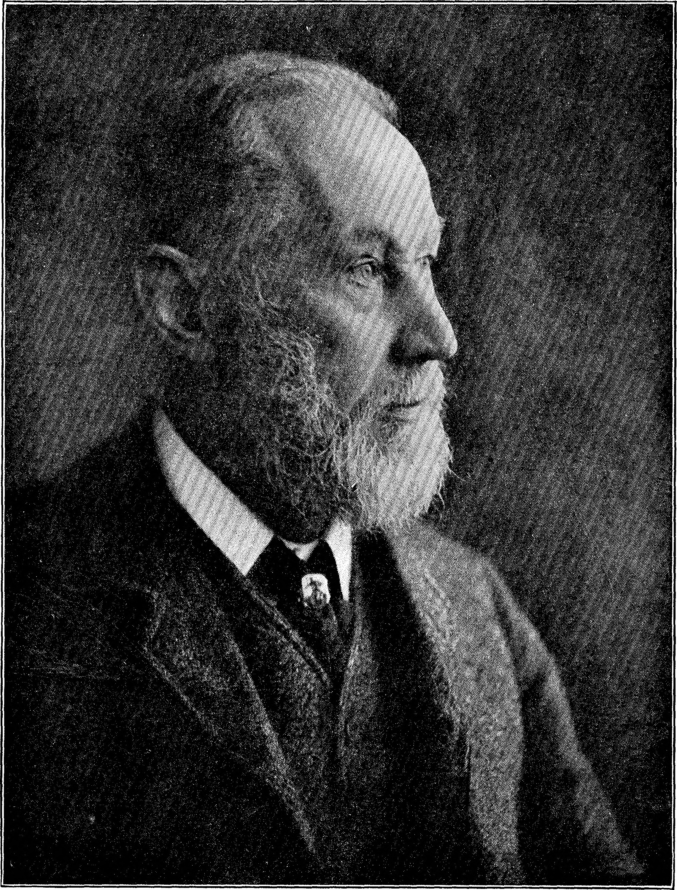 Title: Obituary Notices of Fellows Deceased Year: 1922 (1920s) Authors: Subjects: Proceedings of the Royal Society of London Philosophical Transactions of the Royal Society Publisher: Royal Society of London View Book Page: Book Viewer About This Book: Catalog Entry View All Images: All Images From Book Click here to view book online to see this illustration in context in a browseable online version of this book. Text Appearing Before Image: 1865. But this suggests a curious need for caution in thatmany generic names owe the commencing syllables Brady-, not to eminentzoologists, but to the Greek ftpaSv, indicating some organic slowness, andvery inappropriate to the scientific activities of George Brady and hisbrother Henry. For the use of the formers name in identifying species, hisfriend A. M. Norman led the way with the Ostracode Gythere Bradii in 1864.But this, for technical reasons, gave way to another species, the Marquis deFolins Cythere Bradii in 1869. Norman, in 1878, named a CopepodGervinia Bradyi, Sars in 1884 another of that group Vndinopsis Bradyi, andThomas Scott a third in 1892 as Tetragoniceps Bradyi, but this, later on, hefound reason to place in a new genus with the long-flowing name ofPhyllopodopsyllus, strictly meaning a leaf-footed flea, the species beingnotable for the large size and leaf-like form of the fifth pair of thoracic feetof the female. In a footnote to Tetragoniceps Bradyi, Dr. Thomas Scottphiltrans01619876 Text Appearing After Image: George Stewardson Brady